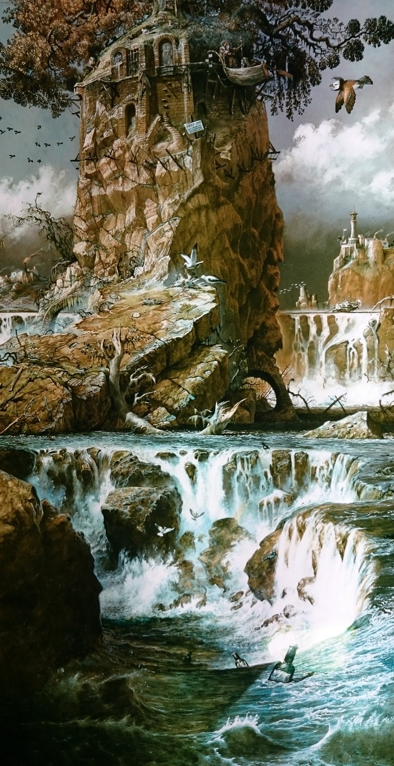 Woodroffe 4